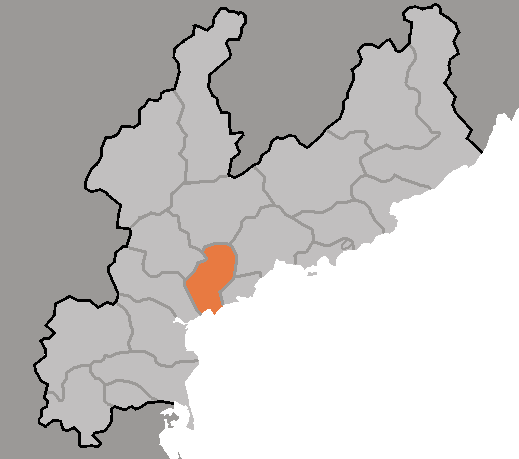 Map of Hamhung, Hamgyong-namdo, DPRK, 2006